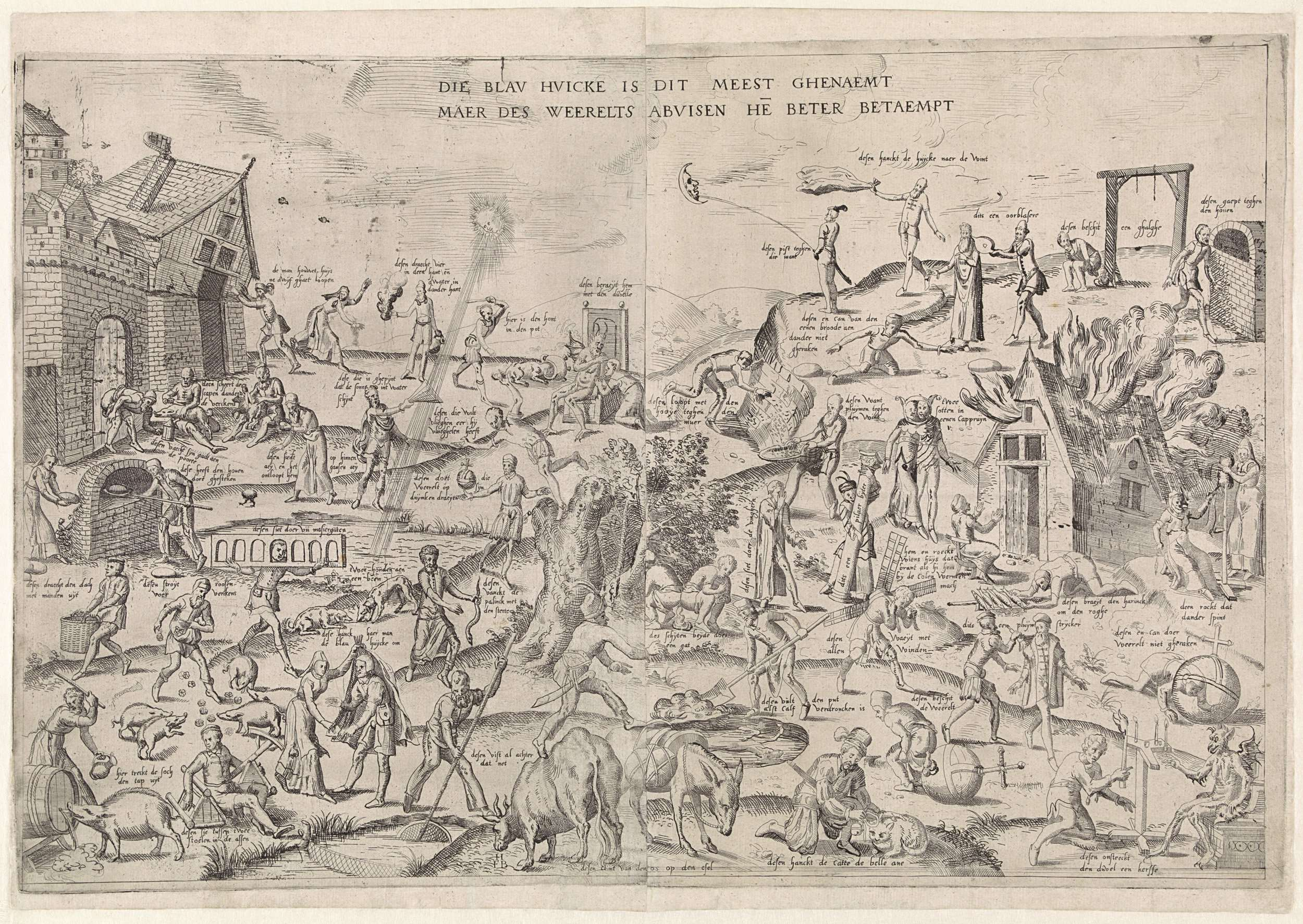 The Blue Cloak, 43 proverbs in visual demonstrations, most prominently a woman who puts her cloak over her husband, a way of saying she is deceiving him (pulling the wool over his eyes). Published around the time of Pieter Brueghel's Netherlandish Proverbs painting.